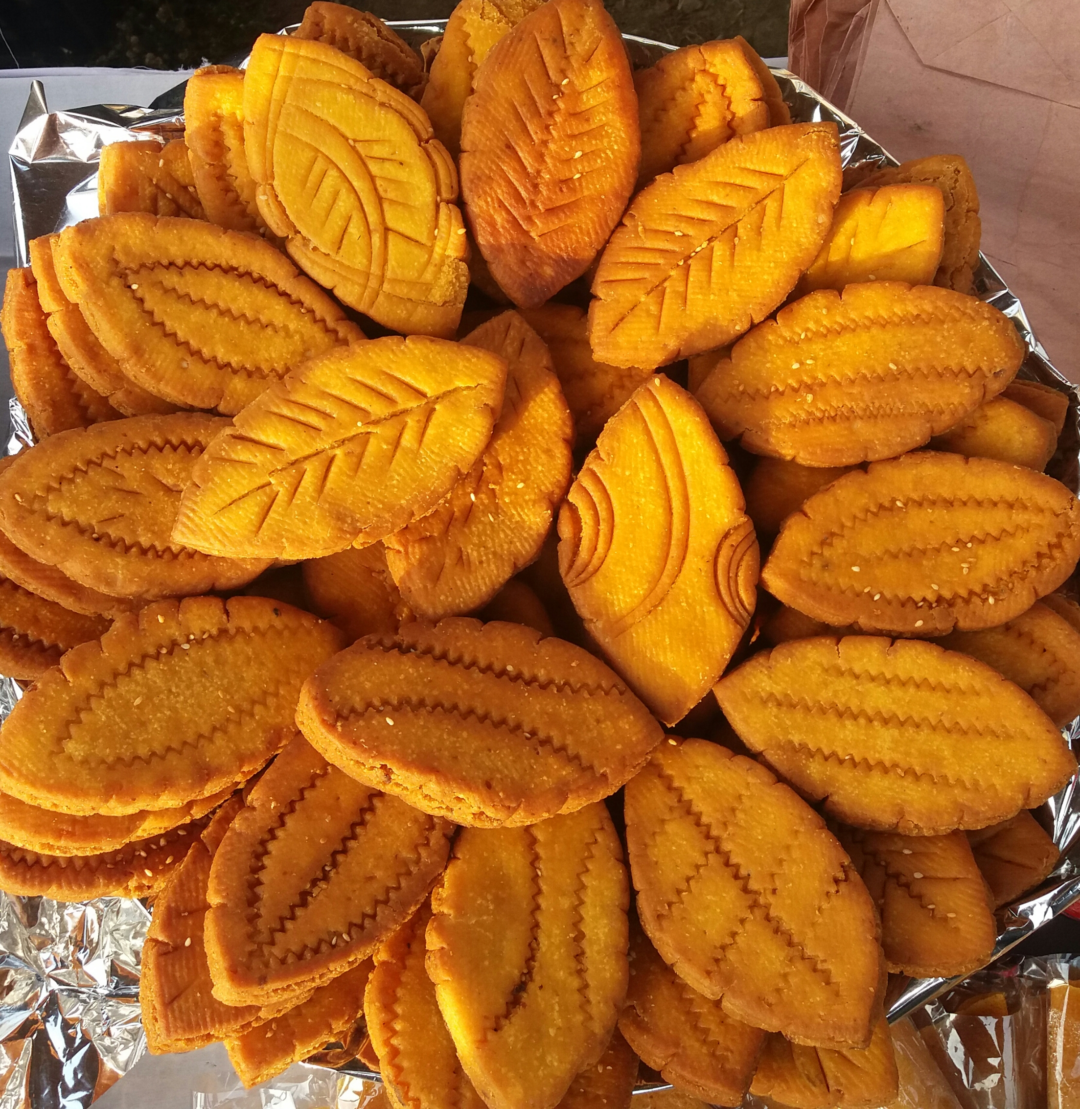 Mug pakon